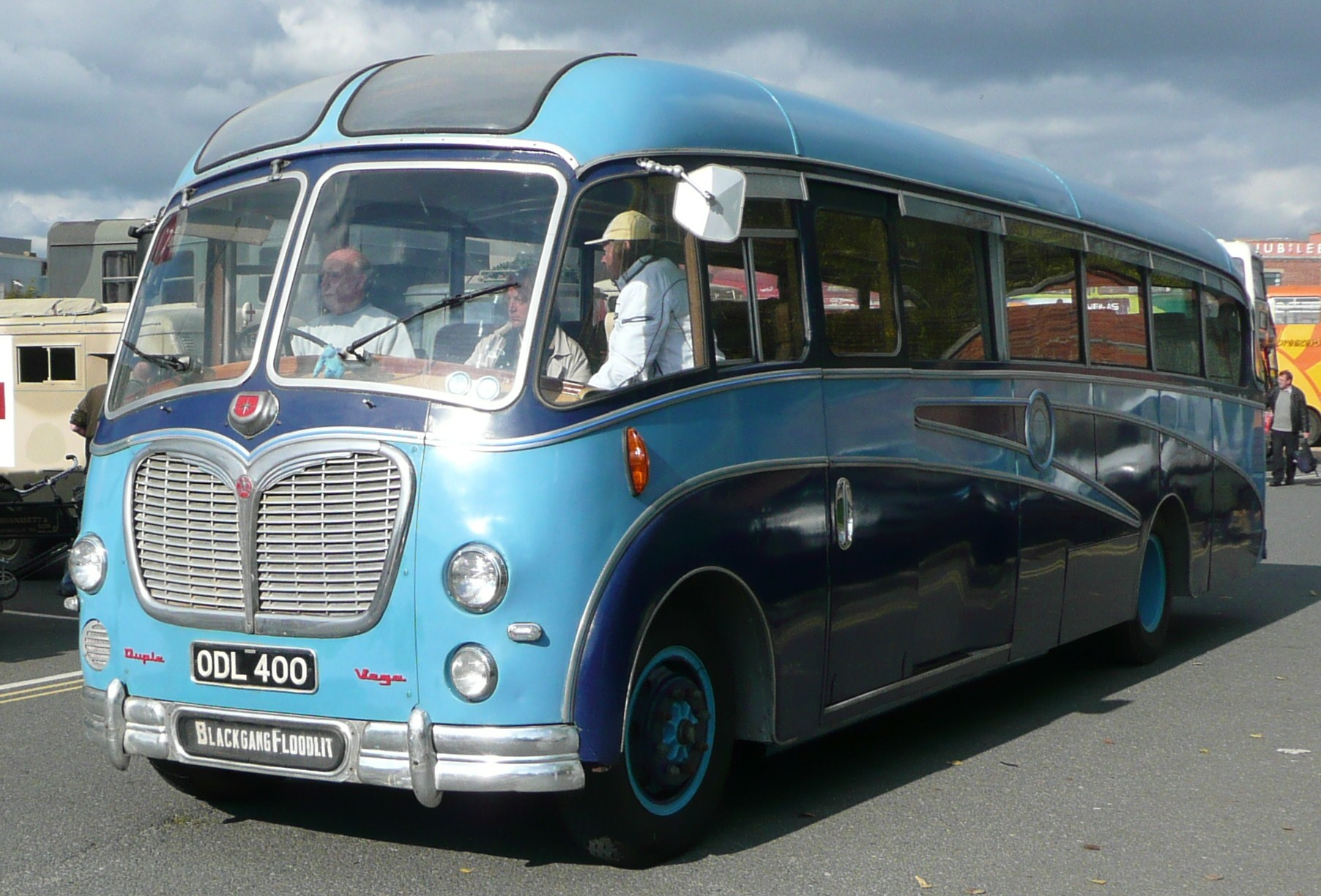 Preserved ex-Moss Motors ODL 400, a 1957 Bedford SB3/Duple Vega, at the 2008 Isle of Wight Bus Museum running day.